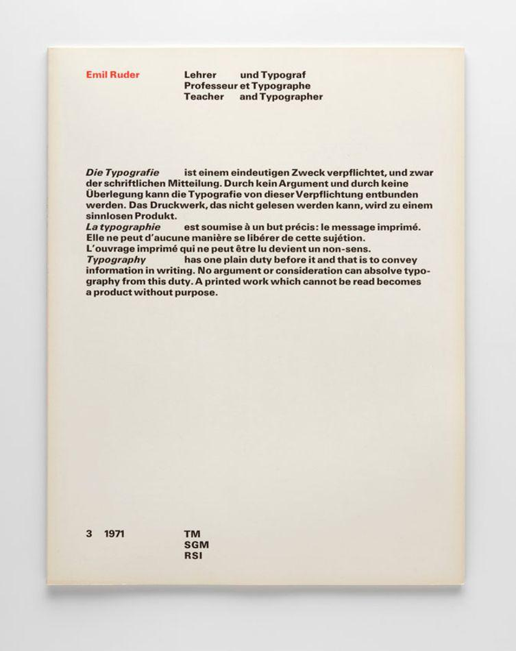 Cover of "TM Typographische Monatsblätter", issue 03.1971. Special issue dedicated to Emil Ruder. Cover design by Robert Büchler. Item L TMTM 71-3 in the collection of Museum für Gestaltung Zürich.